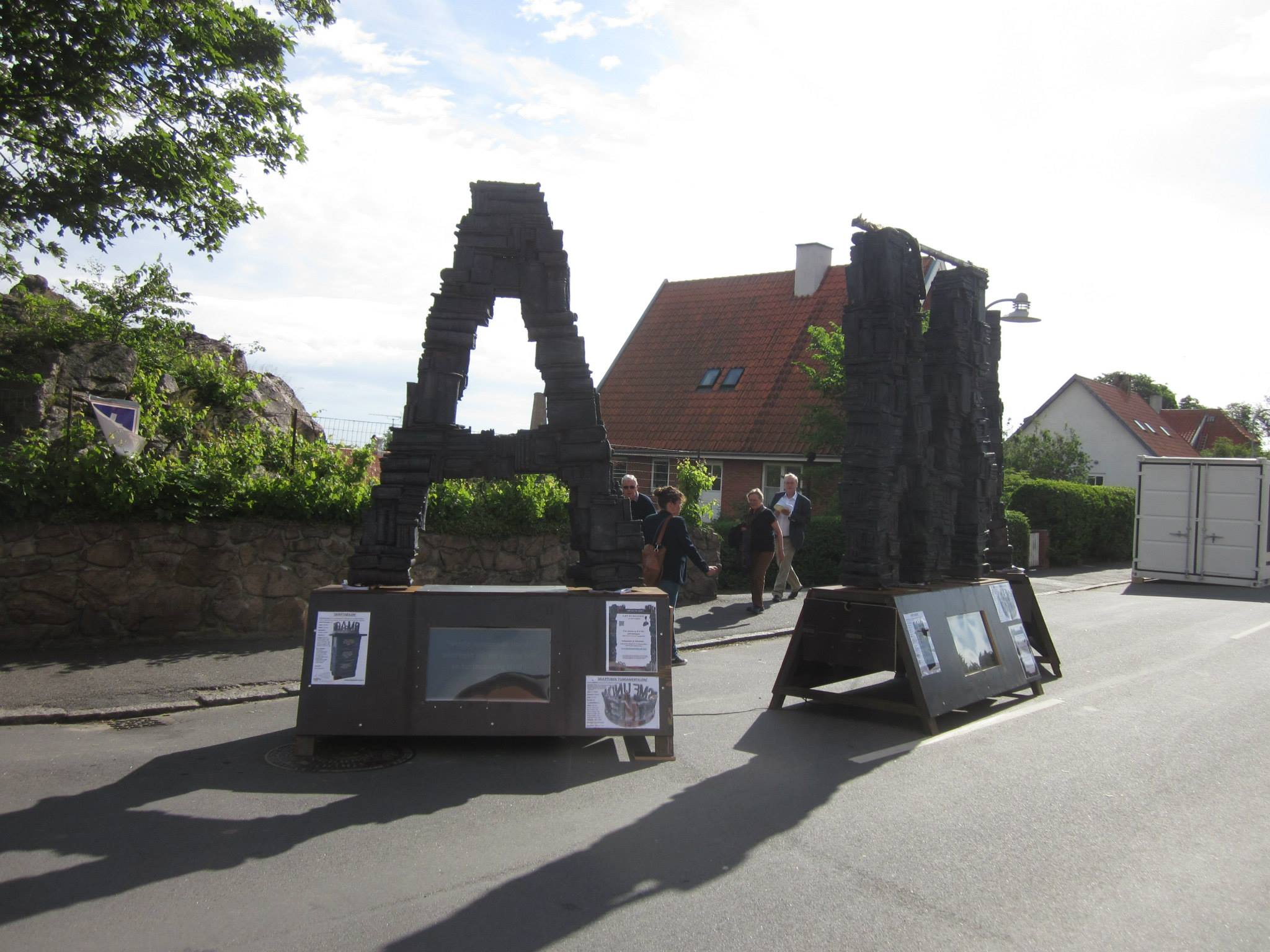 Picture taken at the Danish Folkemødet in 2014, a sculpture by Jens Galschiot.